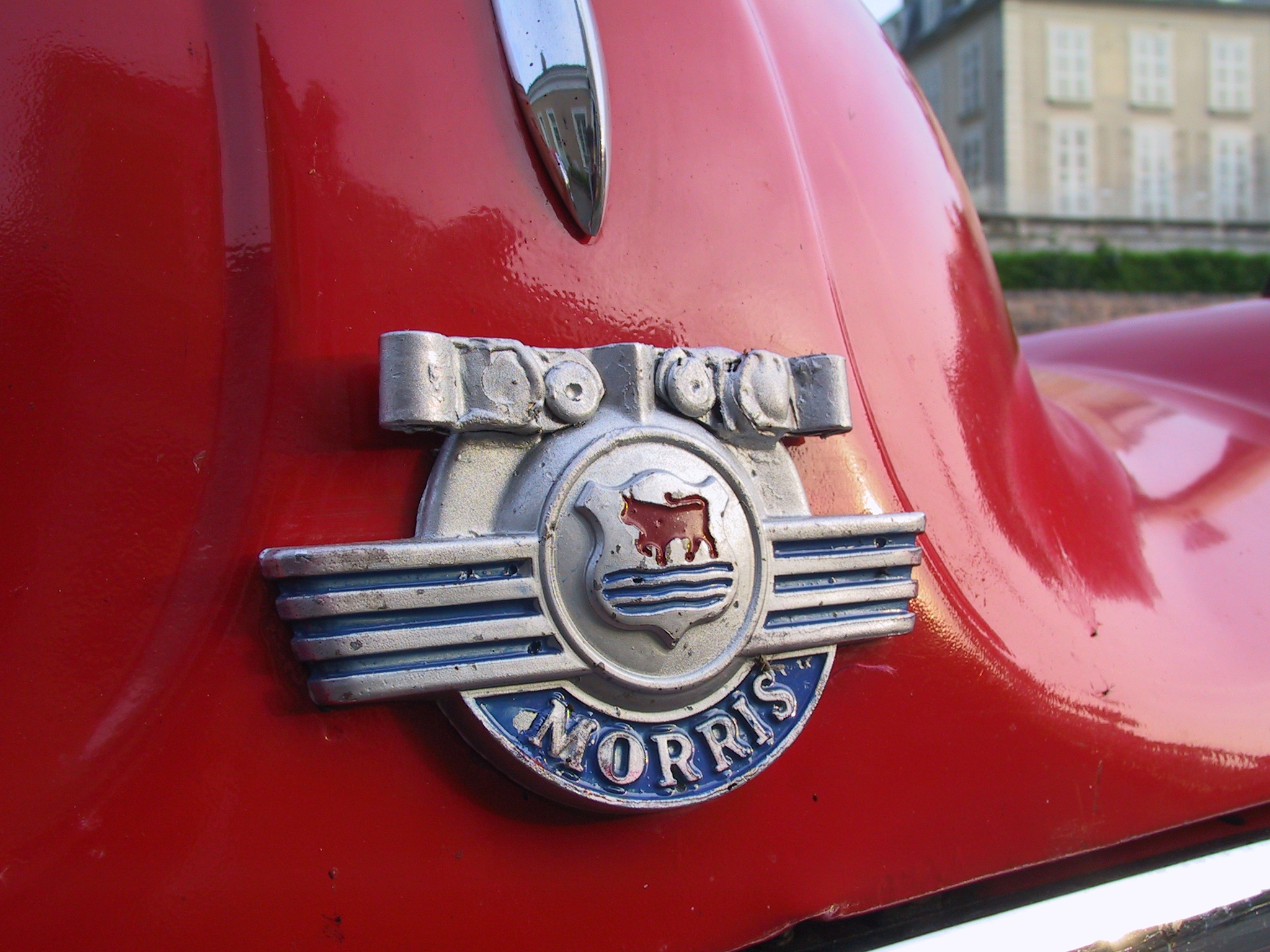 Morris Motor Company Logo, from red Royal Mail truck. Photo by Andrew Lih, 2004.